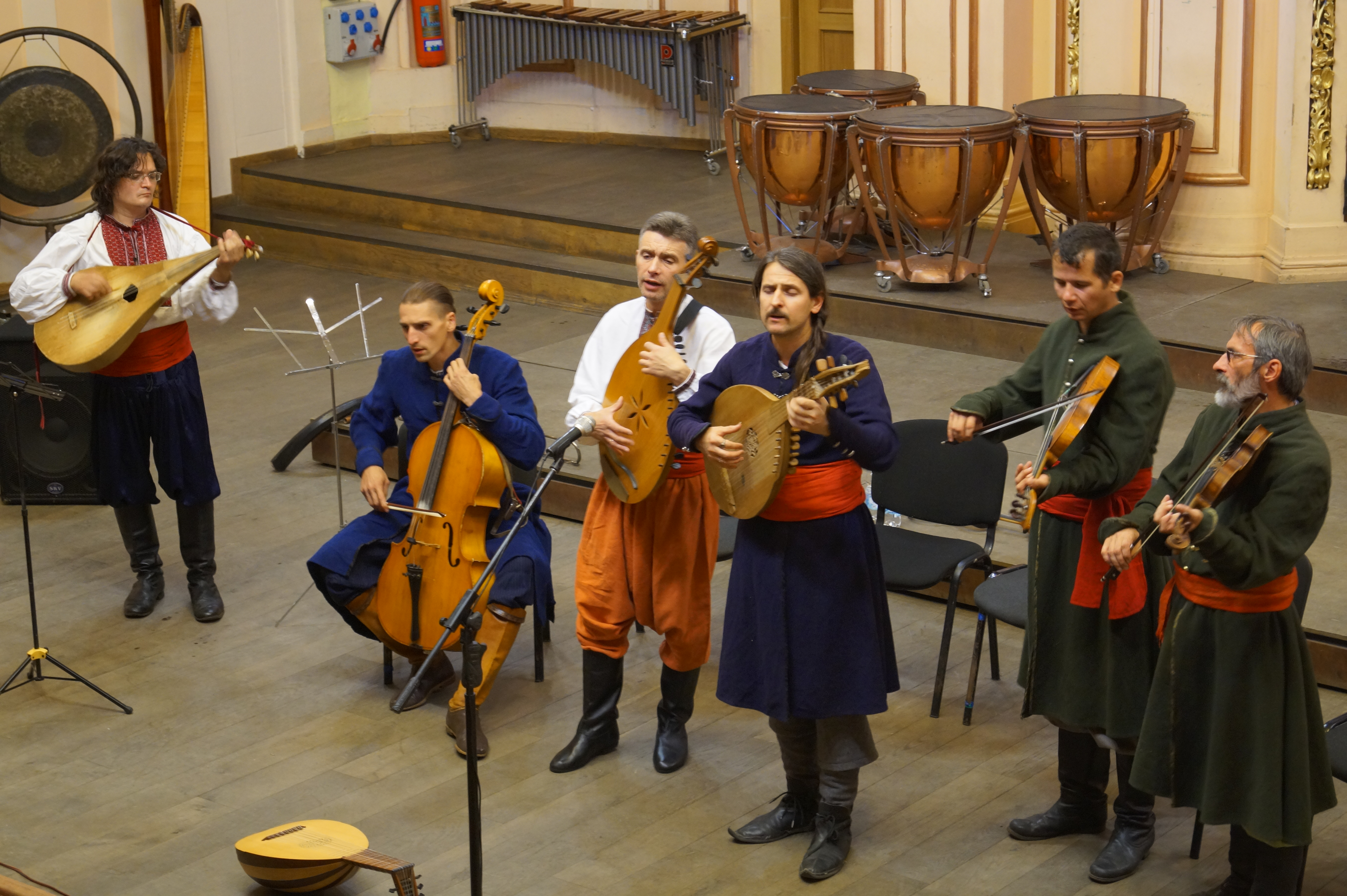 Choreia Kozatska performs in Lviv Philharmonic Concert Hall on September 12th 2015